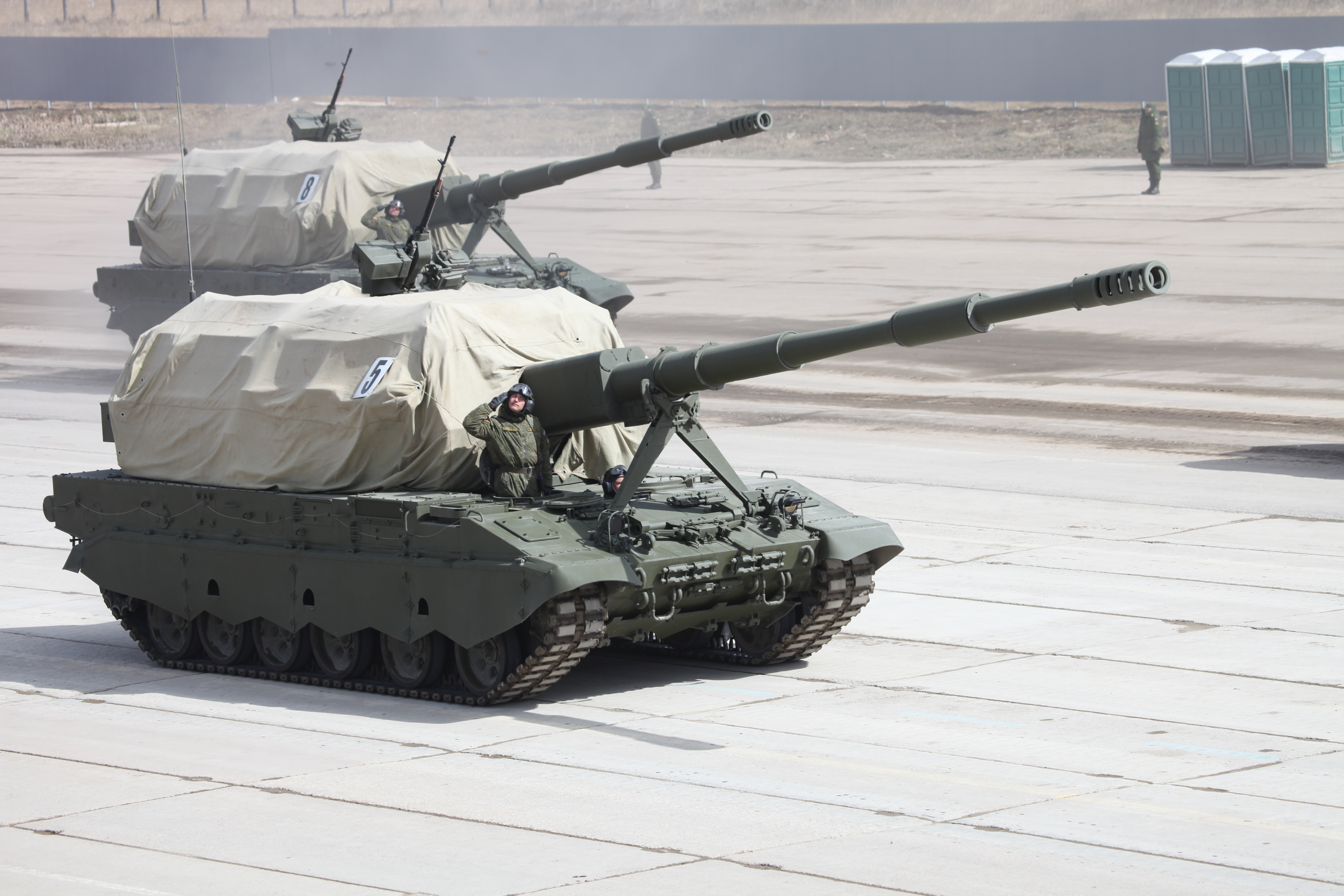 Self-propelled howitzer 2S35 "Koalitsia-SV" on repetition of Victory Day at Alabino proving grounds (during the first open rehearsal in Alabino).